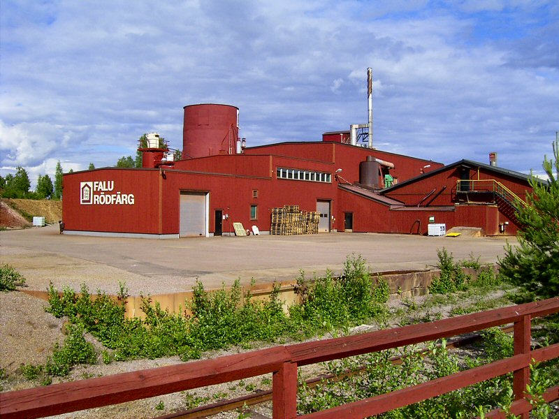 Manufacturing plant of the Genuine Falun Red Paint